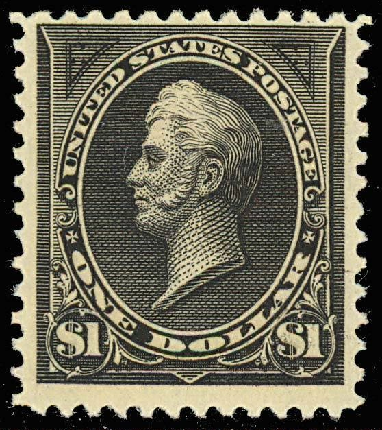 United States $1 black postage stamp featuring naval commander Oliver Hazard Perry, issued 1894, excellent condition